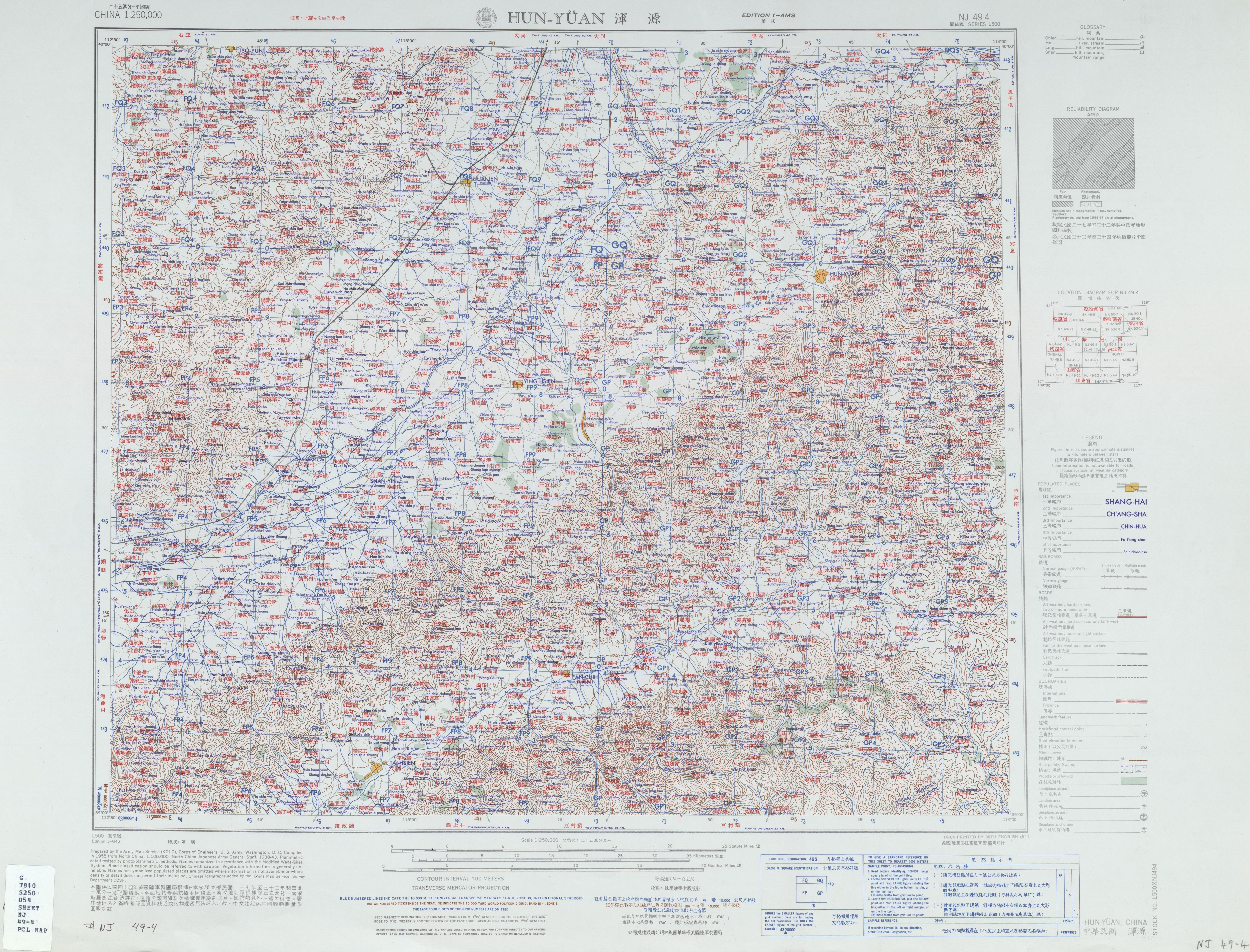 China AMS Topographic Maps